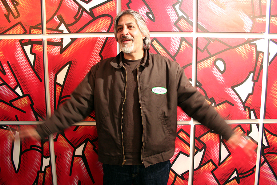 Legendary graffiti writer Seen (Richard Mirando) in Paris ("Seen City" exhibition, MakeYourMark, sept. 2007.) [1] official website